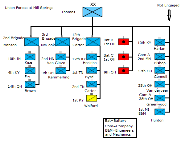 Union forces at Mill Springs